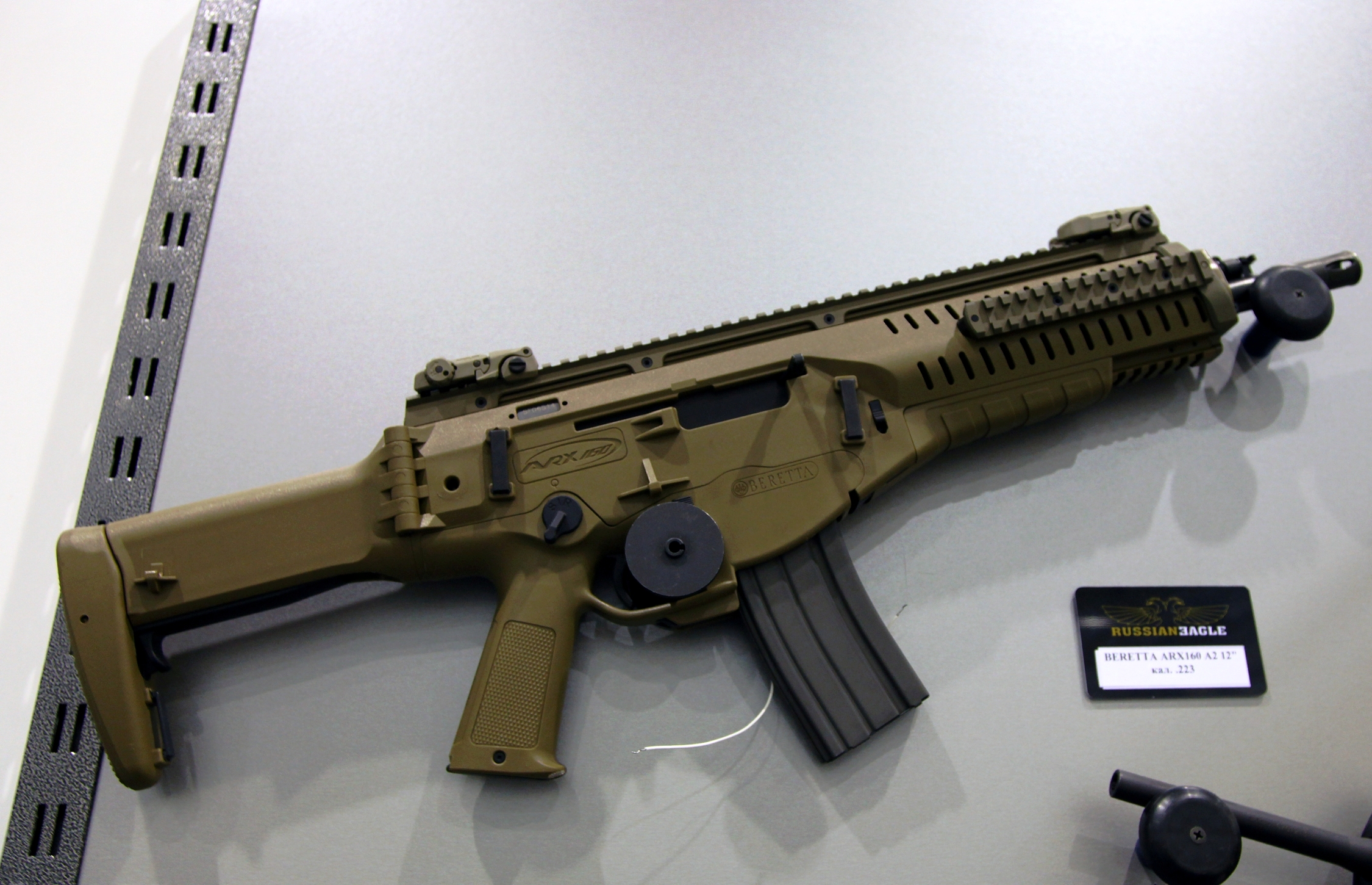 Beretta ARX-160 A2, for special forces, displayed at Interpolitex 2012.